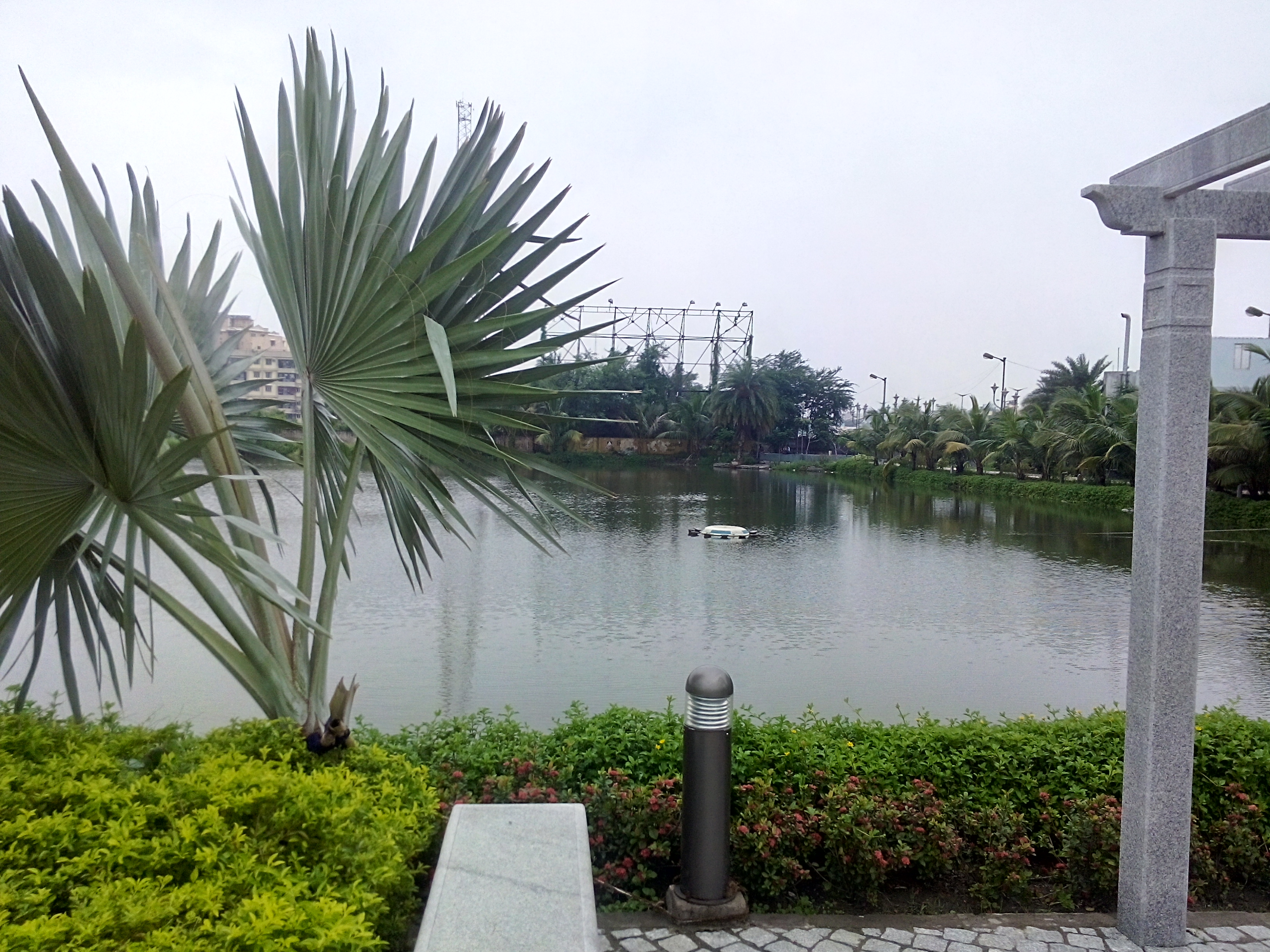 Benubon Chhaya Water Sights